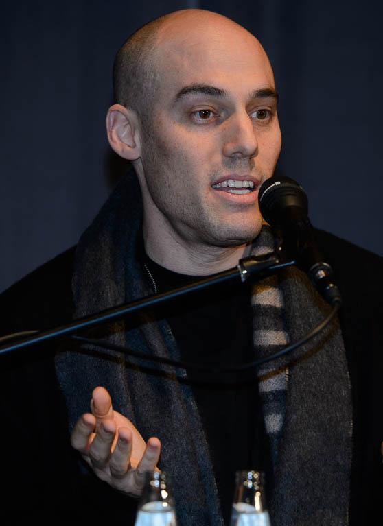 Foto: Stephan Röhl